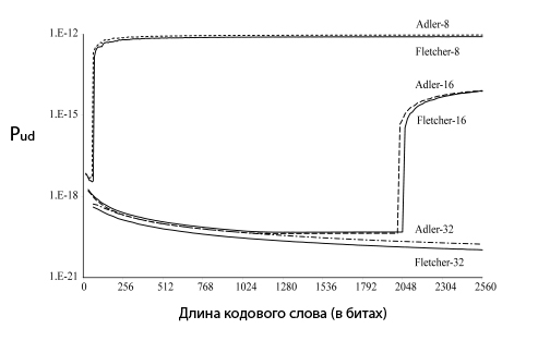 probability of undetected error for fletcher and adler checksums